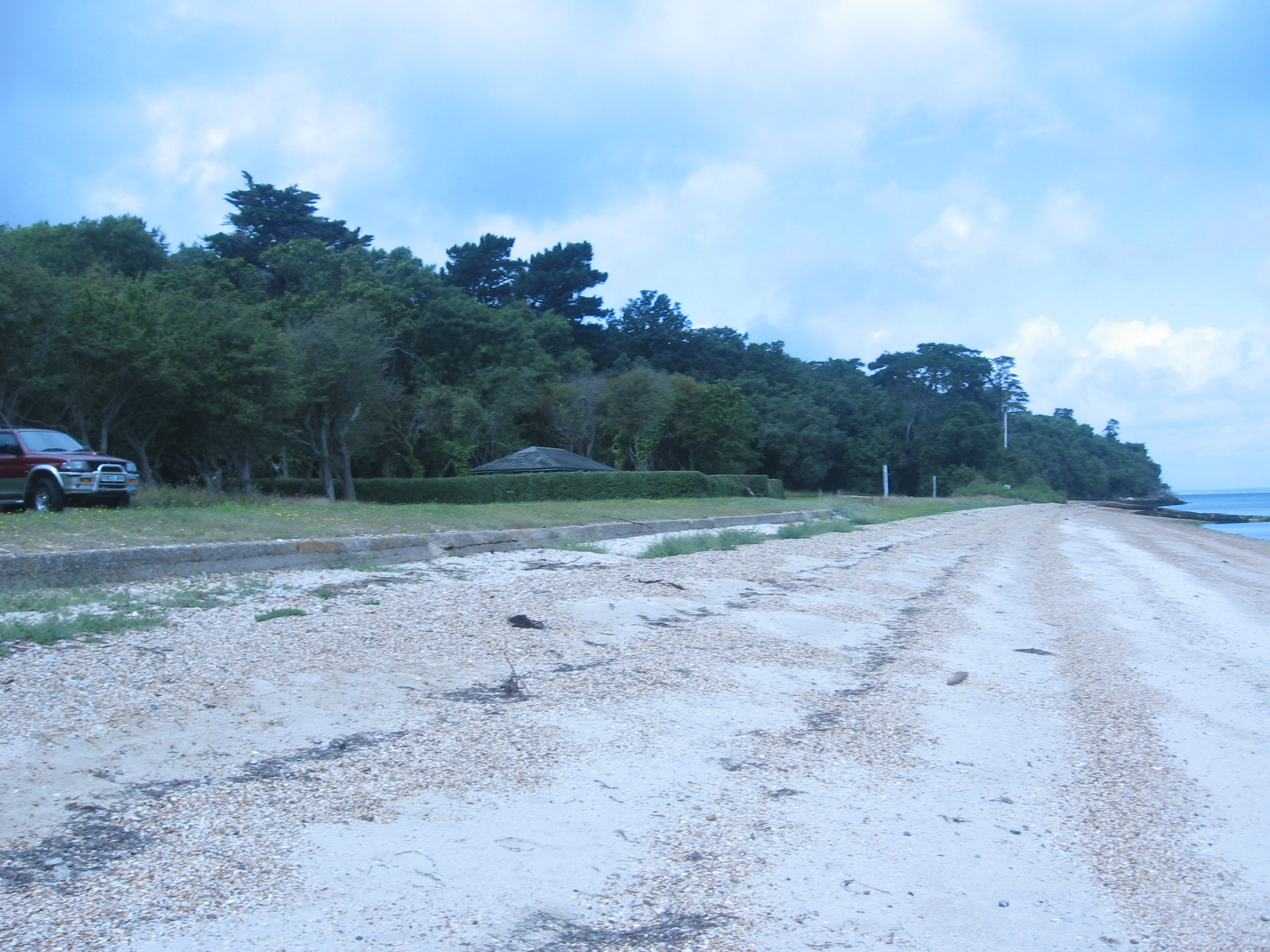 Private Beach at Osborne House as it appeared in 2008 without watermark